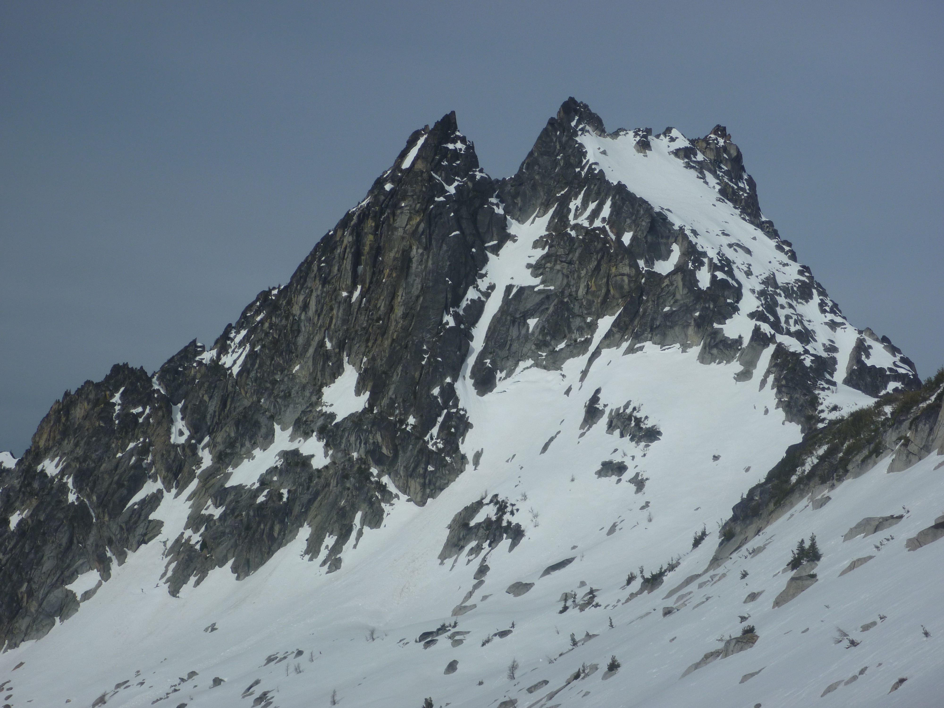 Argonaut Peak from the East. Stuart Range, WA